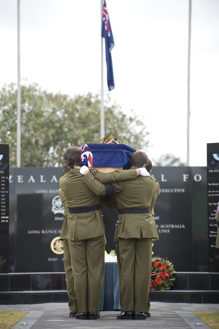 The casket of NZ SAS soldier Corporal Douglas Grant at Papakura Army Camp. 20110825_OH_N1015025_0001 Crown Copyright 2011, NZ Defence Force – Some Rights Reserved.